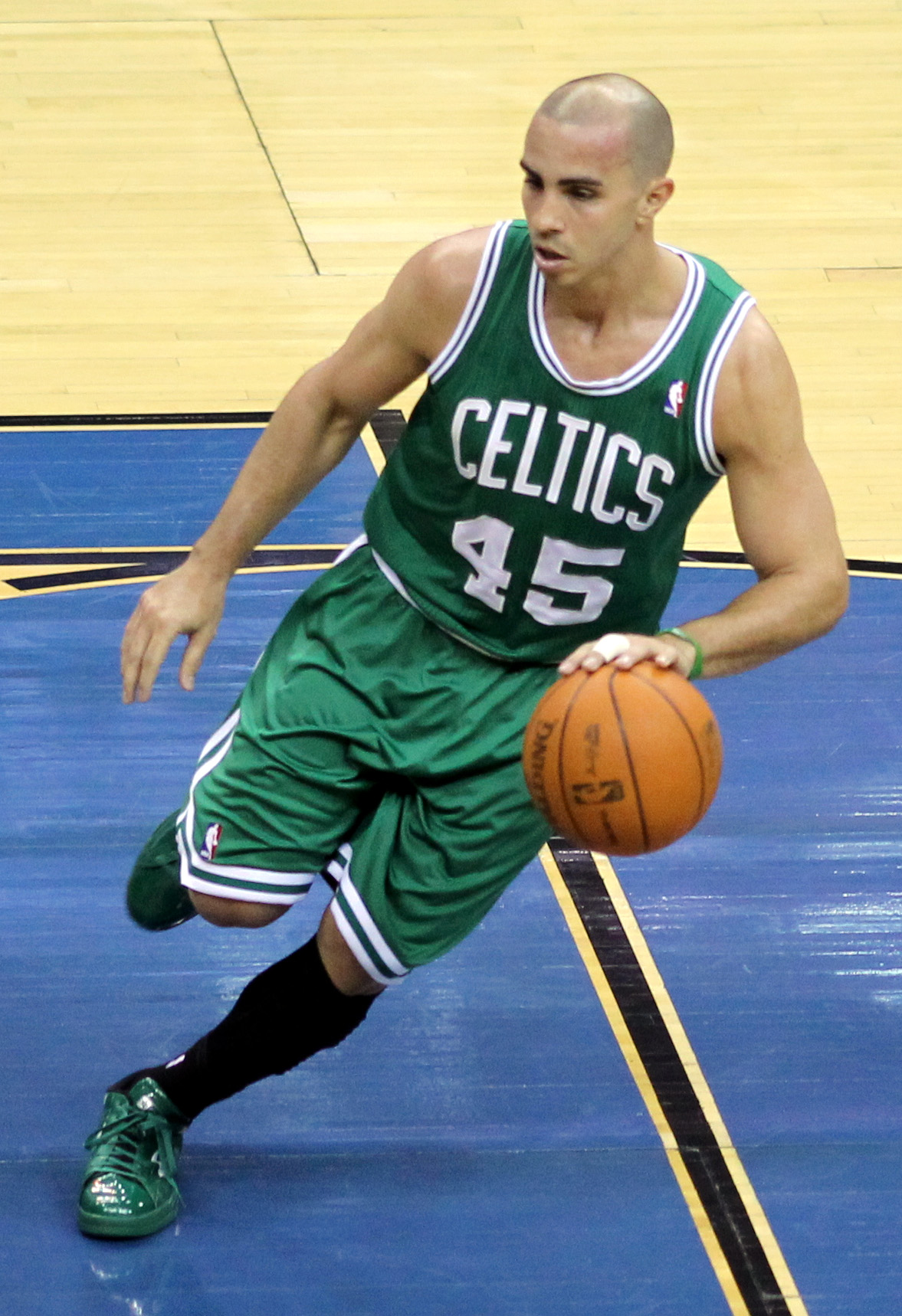 Boston Celtics v/s Washington Wizards April 11, 2011